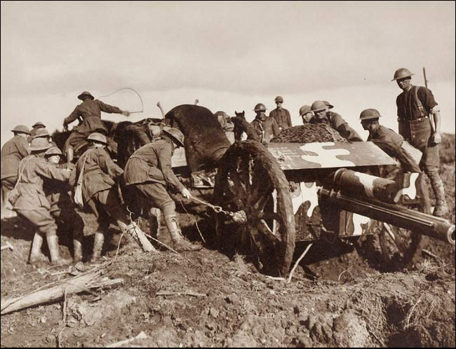 An 18 pounder gun being hauled through the mud at Broodseinde Ridge to a position further forward, in support of the advancing Australians, two days before the initial attack on Passchendaele Ridge, in the Ypres sector. Identified, left of the gun, left to right: Gunner (Gnr) W E Drummond Gnr J Brannon (to Drummond's right) Gnr C V Cox (in front of Brannon) two men unidentified behind Cox 34401 Gnr A Hewitt (in front of Cox) Dvr A C Sampson (standing on wheel, back to camera) Gnr G G Dowling (foreground, pulling rope on front wheel) Right side of gun, left to right: Dvr Hughes Dvr F Peace unidentified unidentified Bombardier T (R ?) Garniss Sergeant W Reynolds (extreme right, standing back). Comment : Note armoured oil reservoir on end of recuperator. See First Battle of Passchendaele.